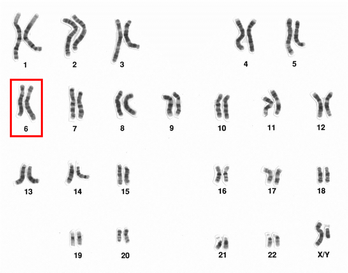 Human male Karyotype after G-banding. Chromosome 6 highlighted